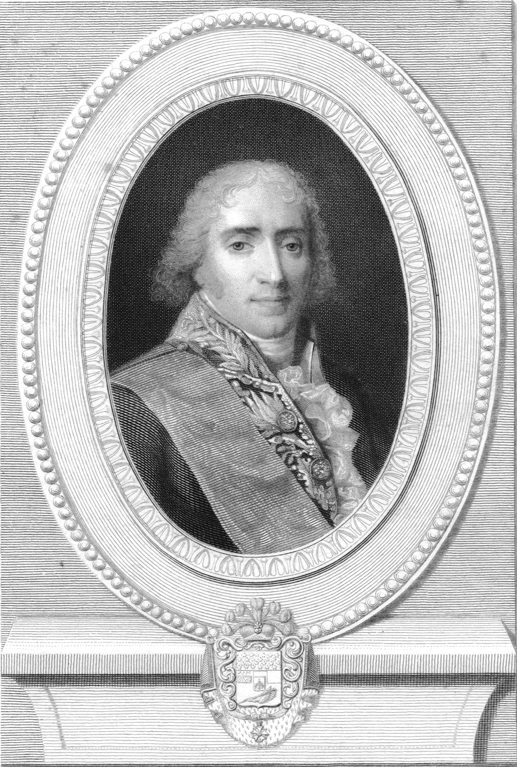 Hugues-Bernard Maret, duc de Bassano